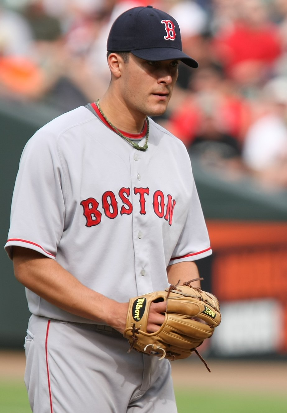 Javier López playing with Boston Red Sox.